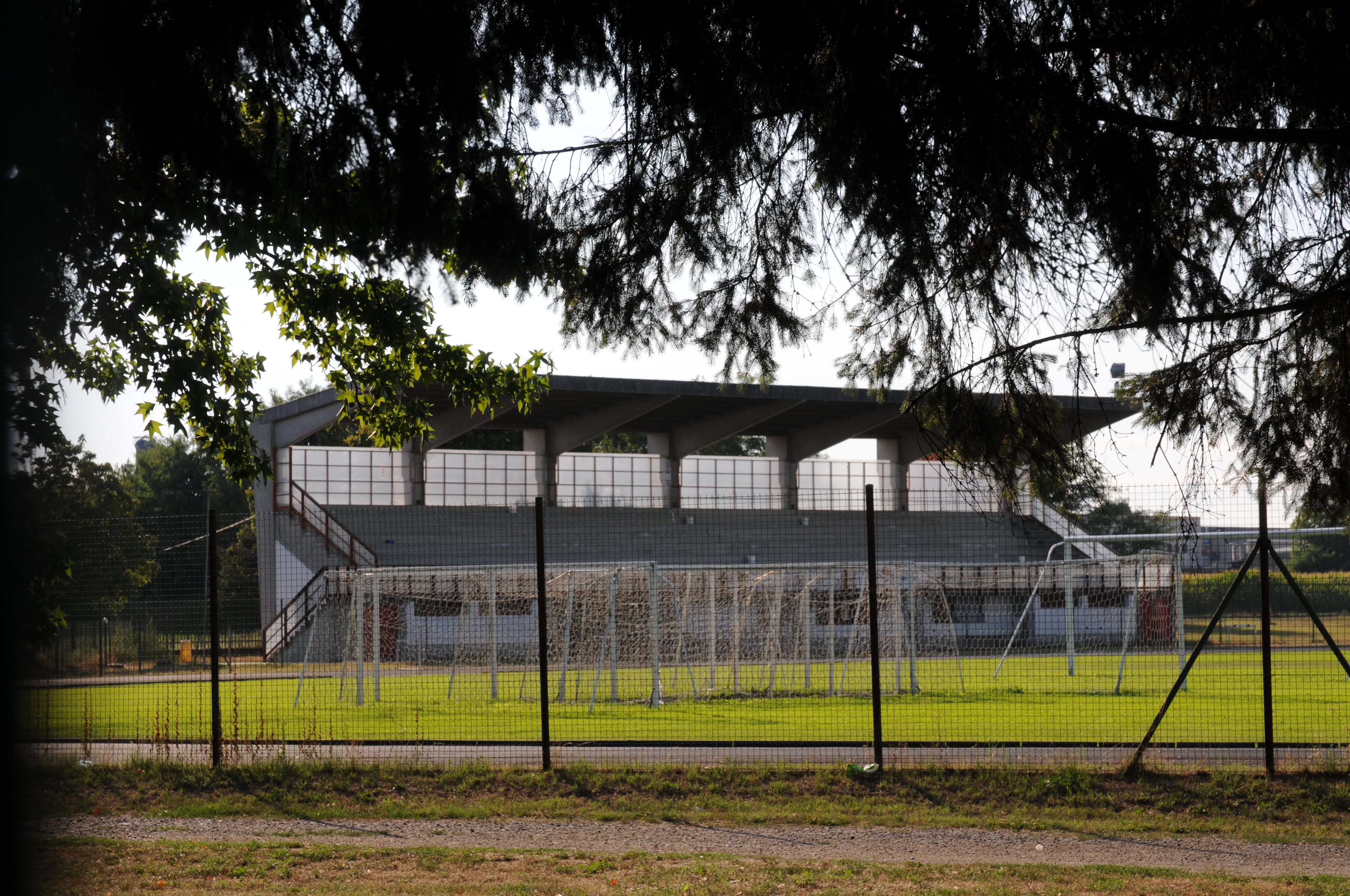 Sports court in San Giorgio su Legnano (Italy)